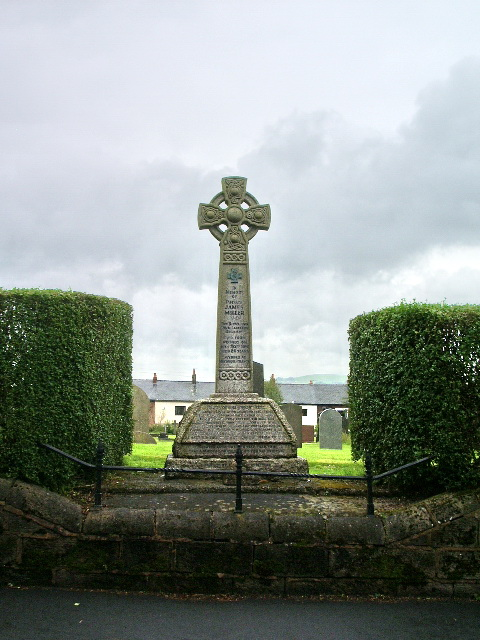 Memorial to Private James Miller VC The King's Own (Royal Lancaster Regiment) On the base of the memorial is this inscription "Ordered to take an important message under heavy fire and to bring back a reply at all costs Private Miller while crossing the open, was almost immediately shot through the body, in spite of this, with heroic courage and self-sacrifice he struggled and deliverer the message, staggered back with the answer and fell at the feet of his officer. He gave his life with a supreme devotion to duty" His body is interred at Recondel, France